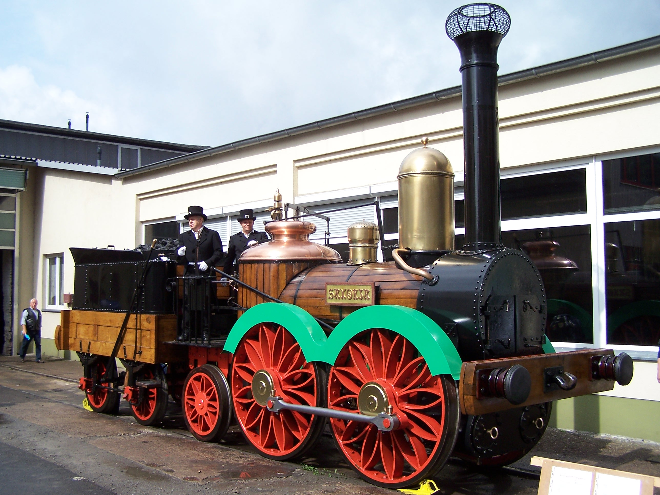 1989 replica of first steam locomotive built in Germany “Saxonia” in the Meiningen Steam Locomotive Works, Germany, September 1st, 2007